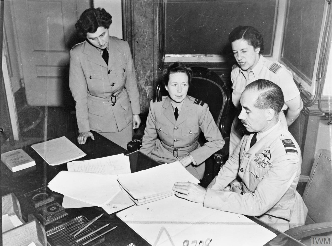 Air Chief Commandant Lady Welsh, Director of the Women's Auxiliary Air Force sitting with Air Marshal Sir Guy Garrod, Deputy Air Commander-in-Chief, Mediterranean Allied Air Forces and Commander-in-Chief, RAF Mediterranean and Middle East, at his desk in MAAF Headquarters at Caserta, Italy, at the start of her tour of the WAAF in Garrod's Command. Standing on the right and addressing them both is Squadron Officer M S Philip, WAAF Advisory Officer at MAAF, while Flight Officer M Tempest-Holmes, Lady Welsh's Personal Assistant, stands on the left.